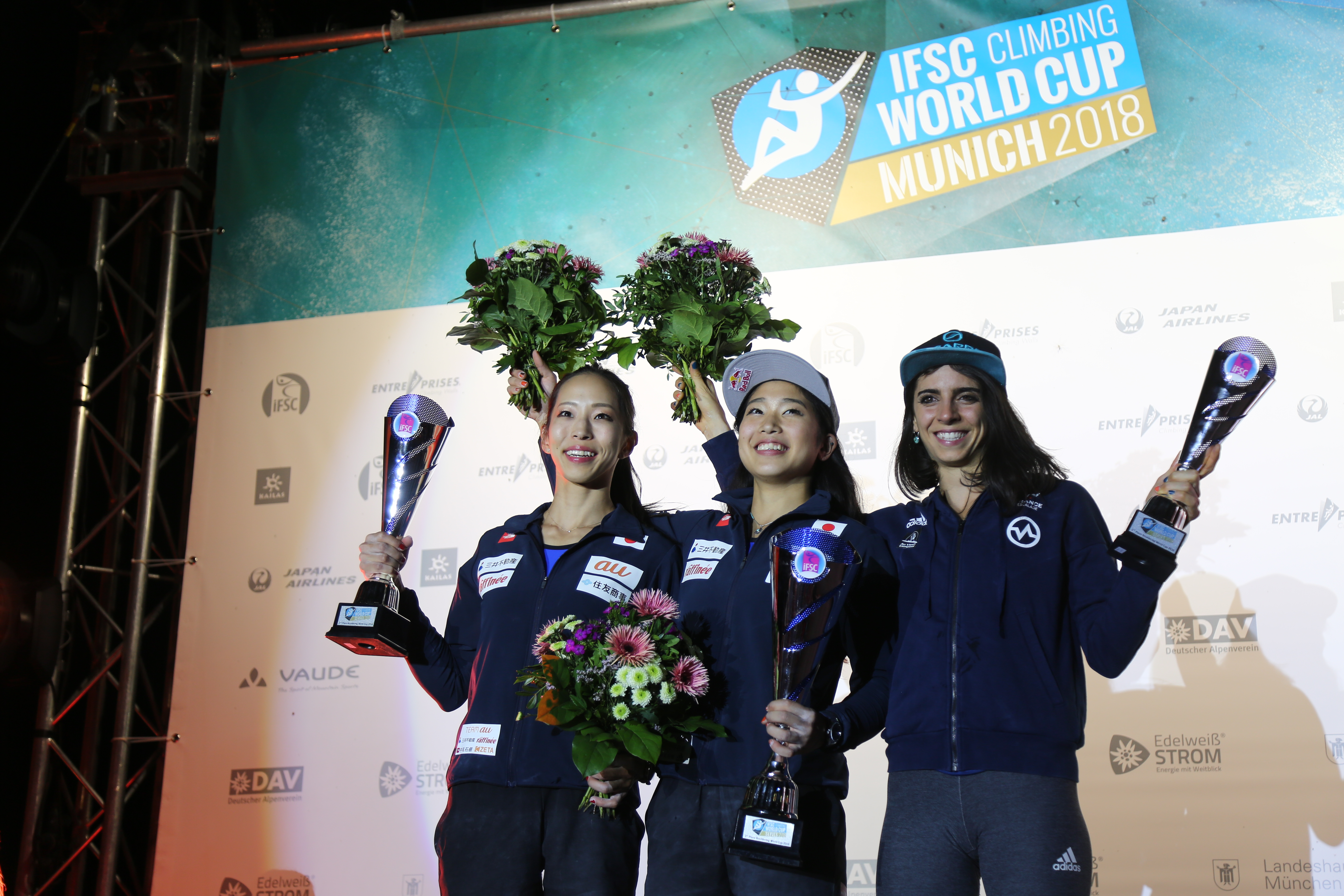 Boulder Worldcup 2018, Final Event in Munich 2018-08-18, Winners 1st place: NONAKA Miho JPN, 2nd place: NOGUCHI Akiyo JPN 3rd place: GIBERT Fanny FRA